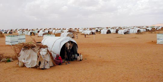 Original caption states, "More than 40,000 refugees live in this massive tent city outside of El Fasher. Disease and despair are rampant."